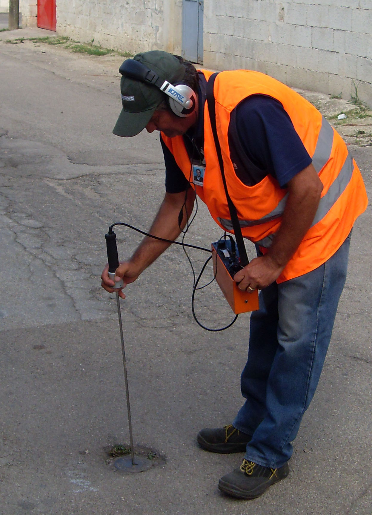 geophone